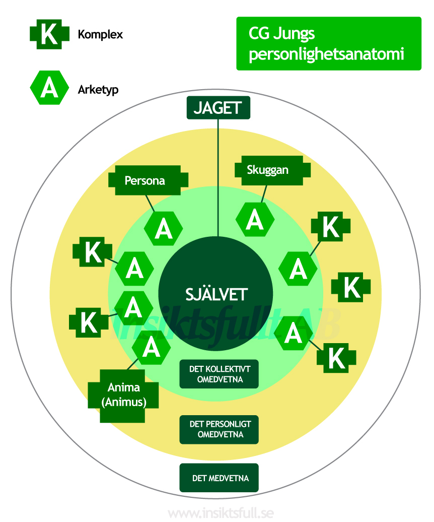 Med tillåtelse från Insiktsfull